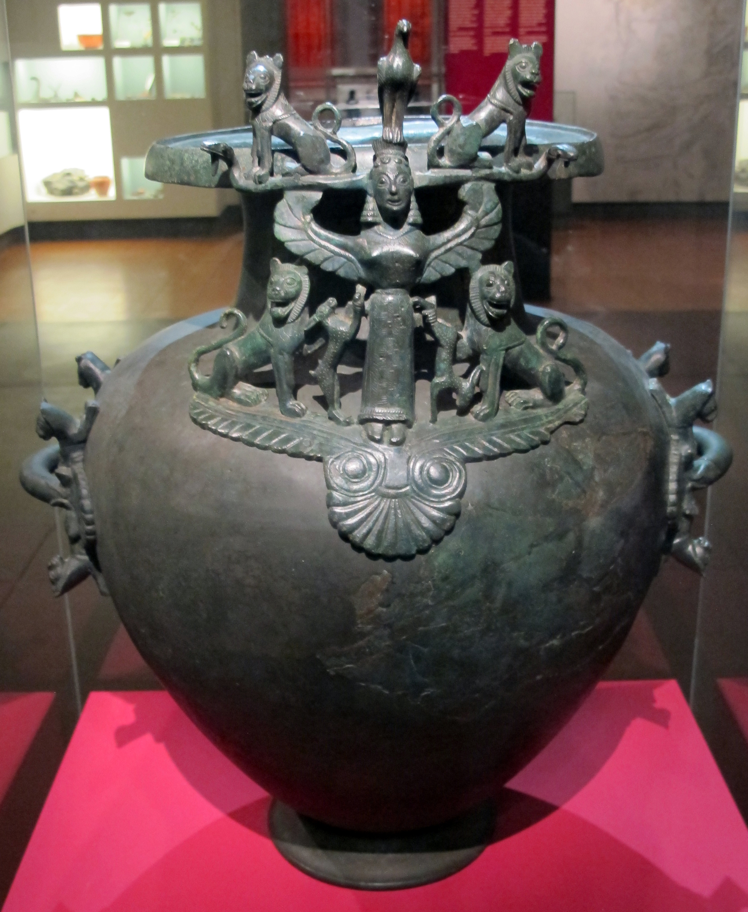 Early history collection of the Historisches Museum Bern